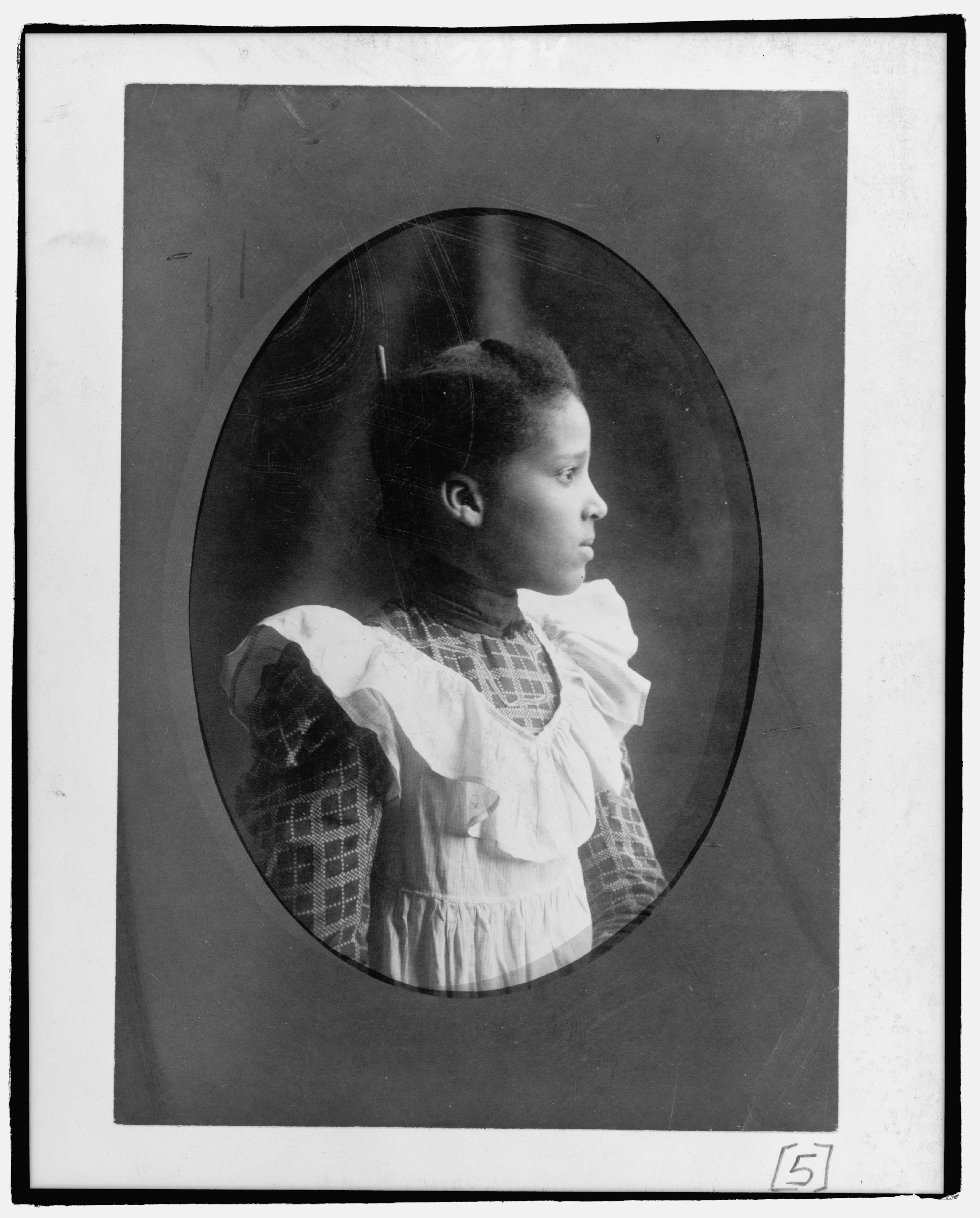 Title: Bazoline Estelle Usher, Atlanta University student, half-length portrait, facing right Physical description: 1 photographic print : gelatin silver. Notes: In album (disbound): Types of American Negroes, compiled and prepared by W.E.B. Du Bois, v. 1, no. 5.; Published in: Photography on the color line / Shawn M. Smith. Durham: Duke University Press, 2004, p. 61.; Title identification information from Photography on the color line.; B&w copy prints for LOT 11930 are provided as surrogates of original photographs for reference use in P&P Reading Room. A microfilm surrogate is also available.; Forms part of: Daniel Murray Collection (Library of Congress).